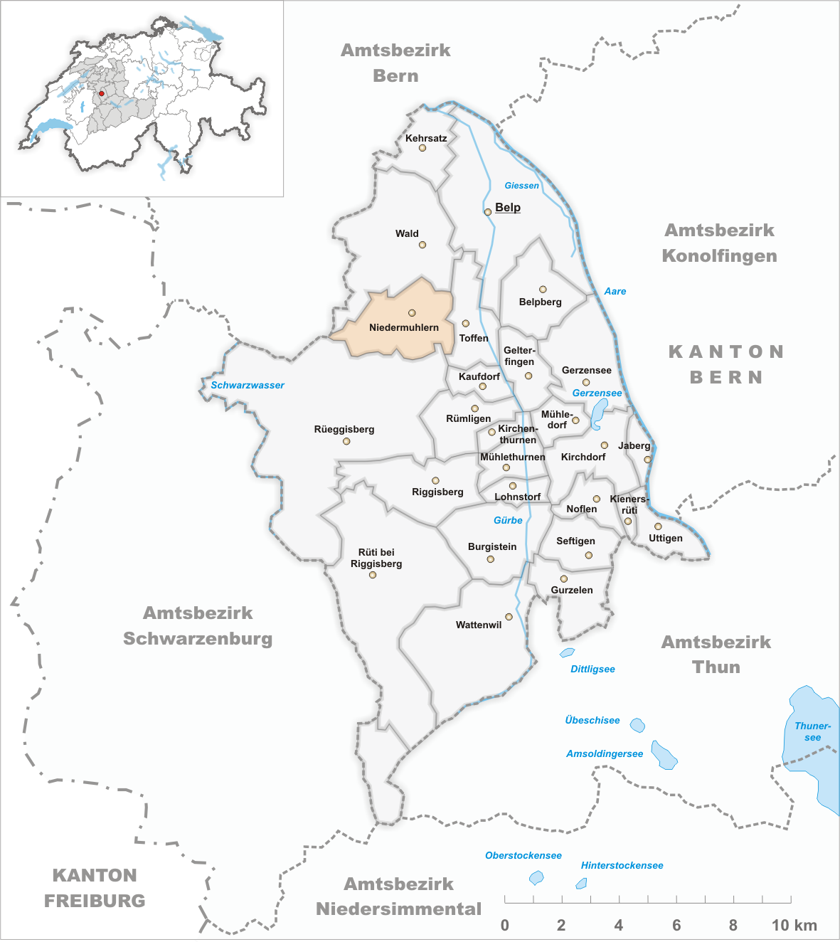 Municipality Niedermuhlern